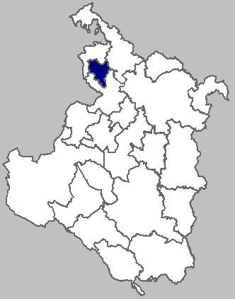 Self-made map of Ribnik municipality within Karlovac County.